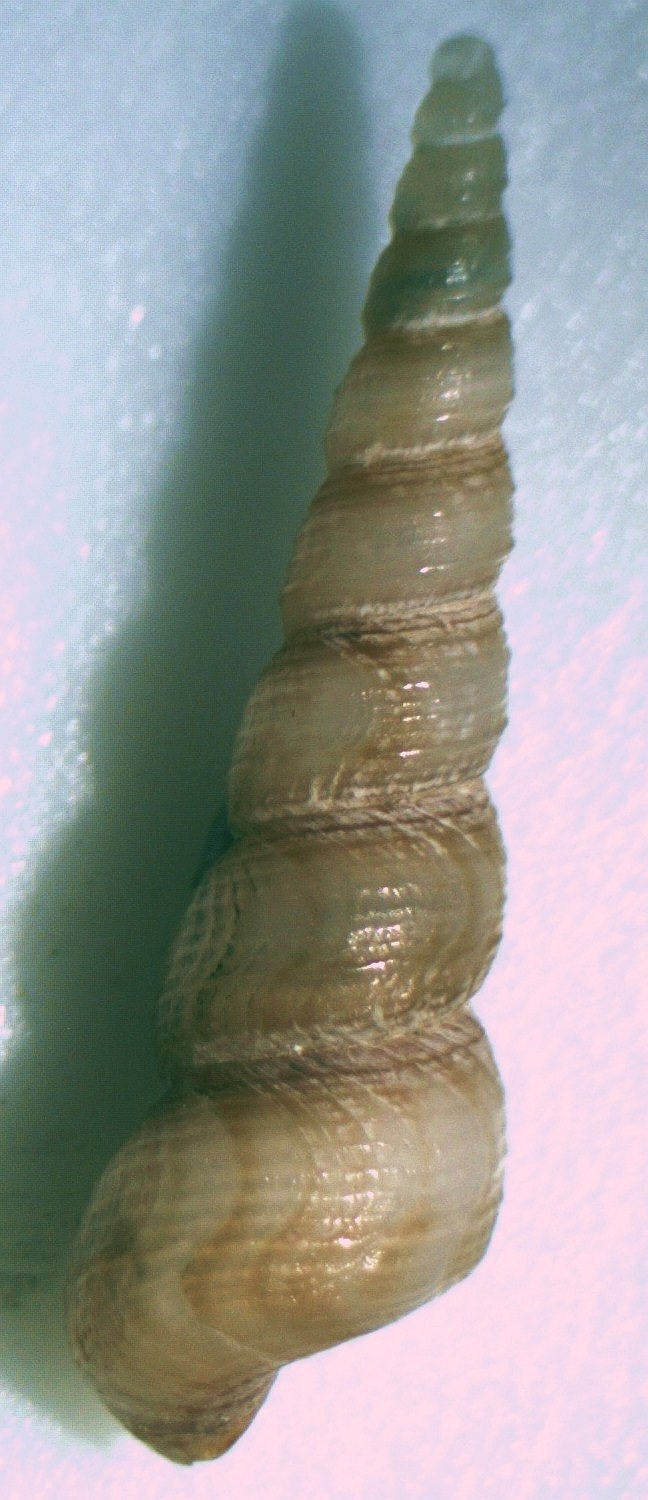 Turritella cingulifera, synonym: Haustator cingulifera (Sowerby I, 1825), a sea snail from the family Turritellidae; Australia